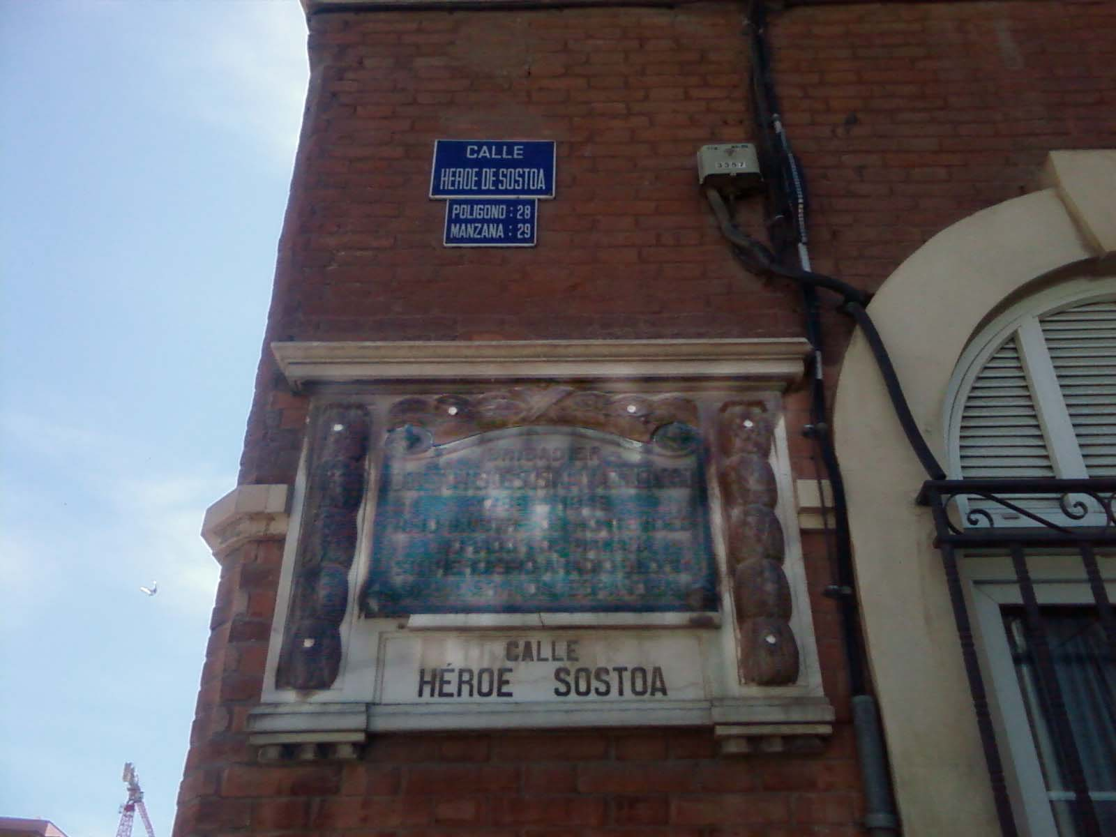 Street dedicated to the hero Tomás de Sostoa y Achúcarro in Málaga City, Spain.